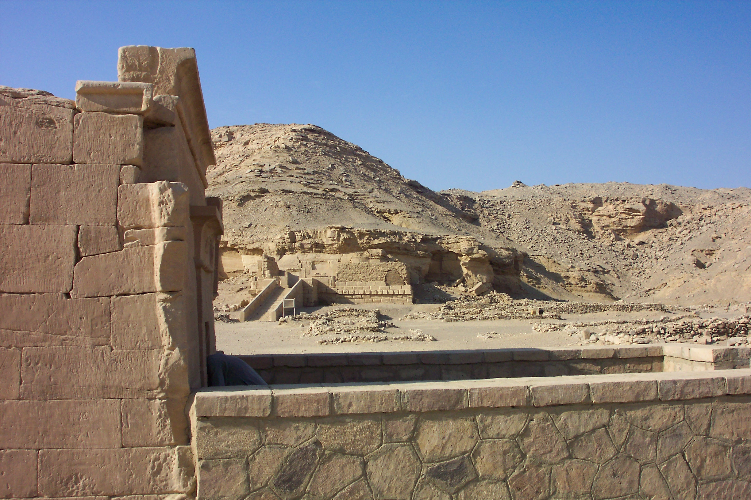 The desert temples at El Kab (Egypt). At the forefront is the chapel of Thoth built by Setau (time of Ramses II). In the background, the Prolemaic rock-temple.